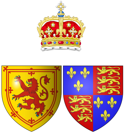 Coat of arms of Margaret Tudor as Queen consort of Scots